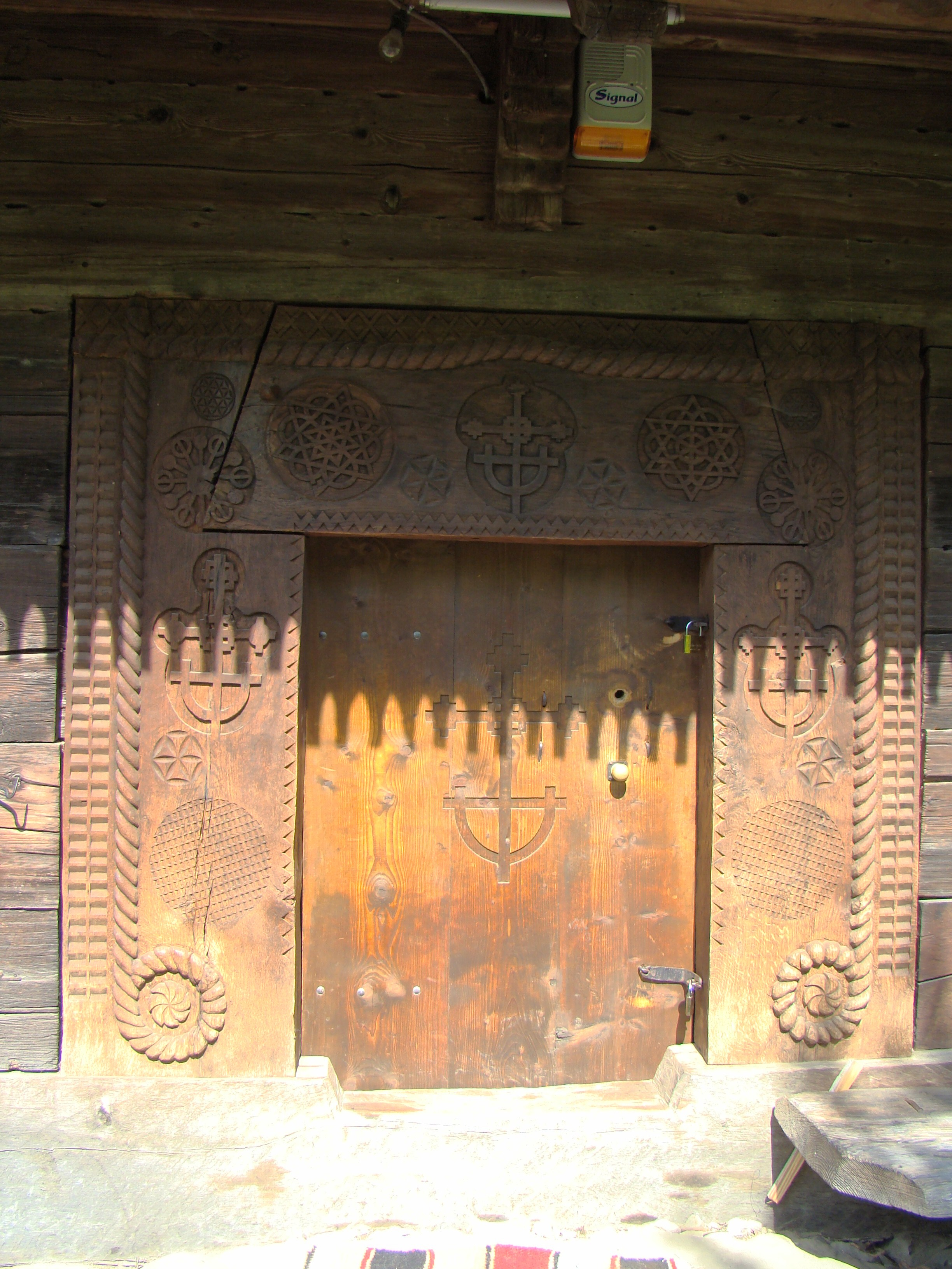 Wooden church in Budeşti Josani, Maramureş